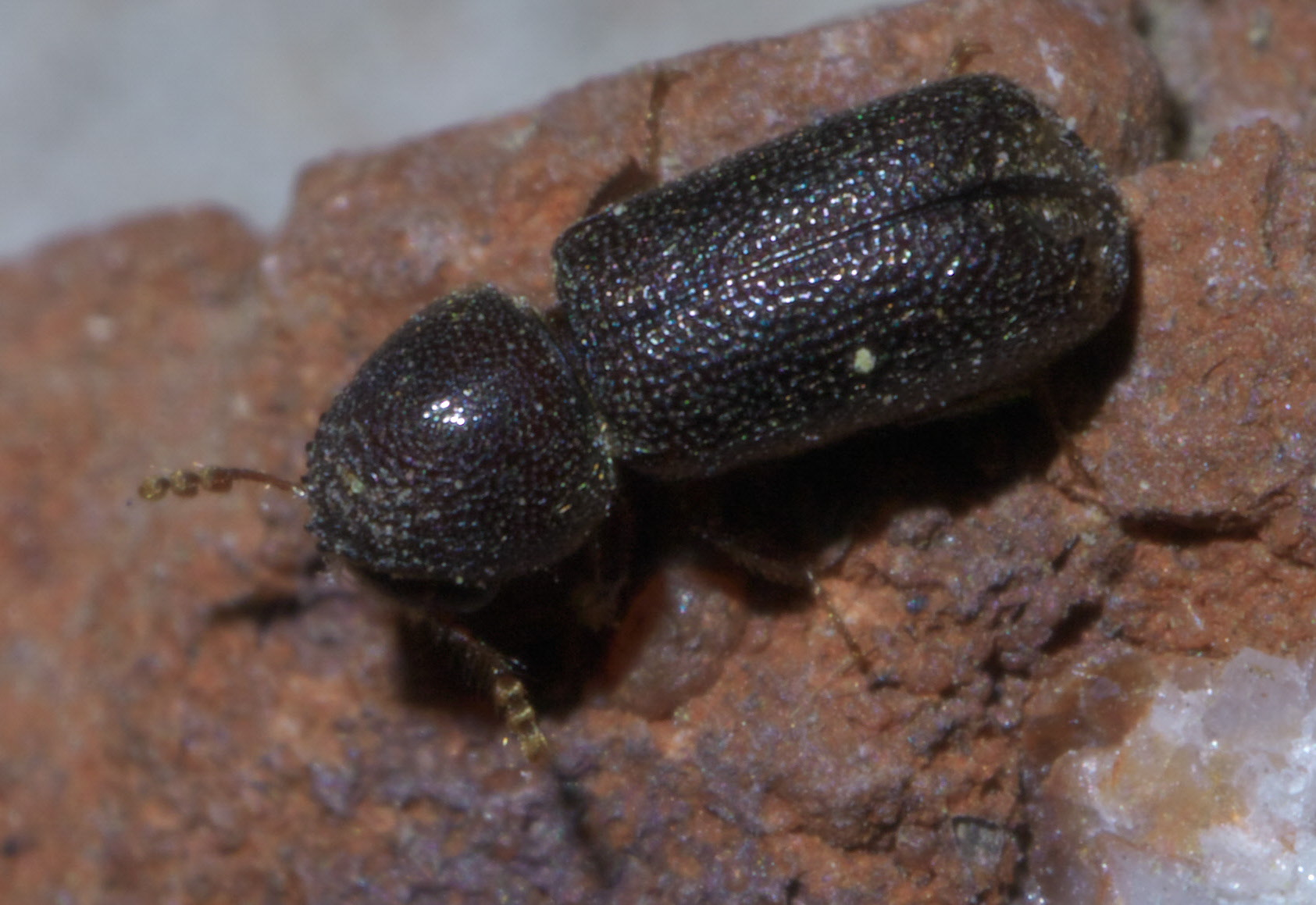 Prostephanus punctatus, Family: Horned Powder-post Beetles, Size: 4.2 mm, ID Confidence: 93